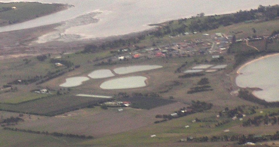 Penna Tasmania, a village near Sorell. Aerial photo from north west